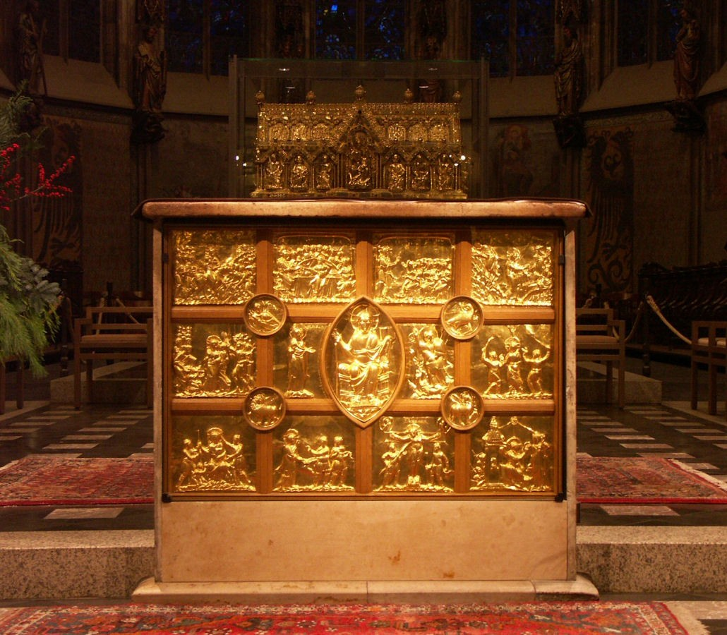 Aachen Cathedral, Aachen, Germany